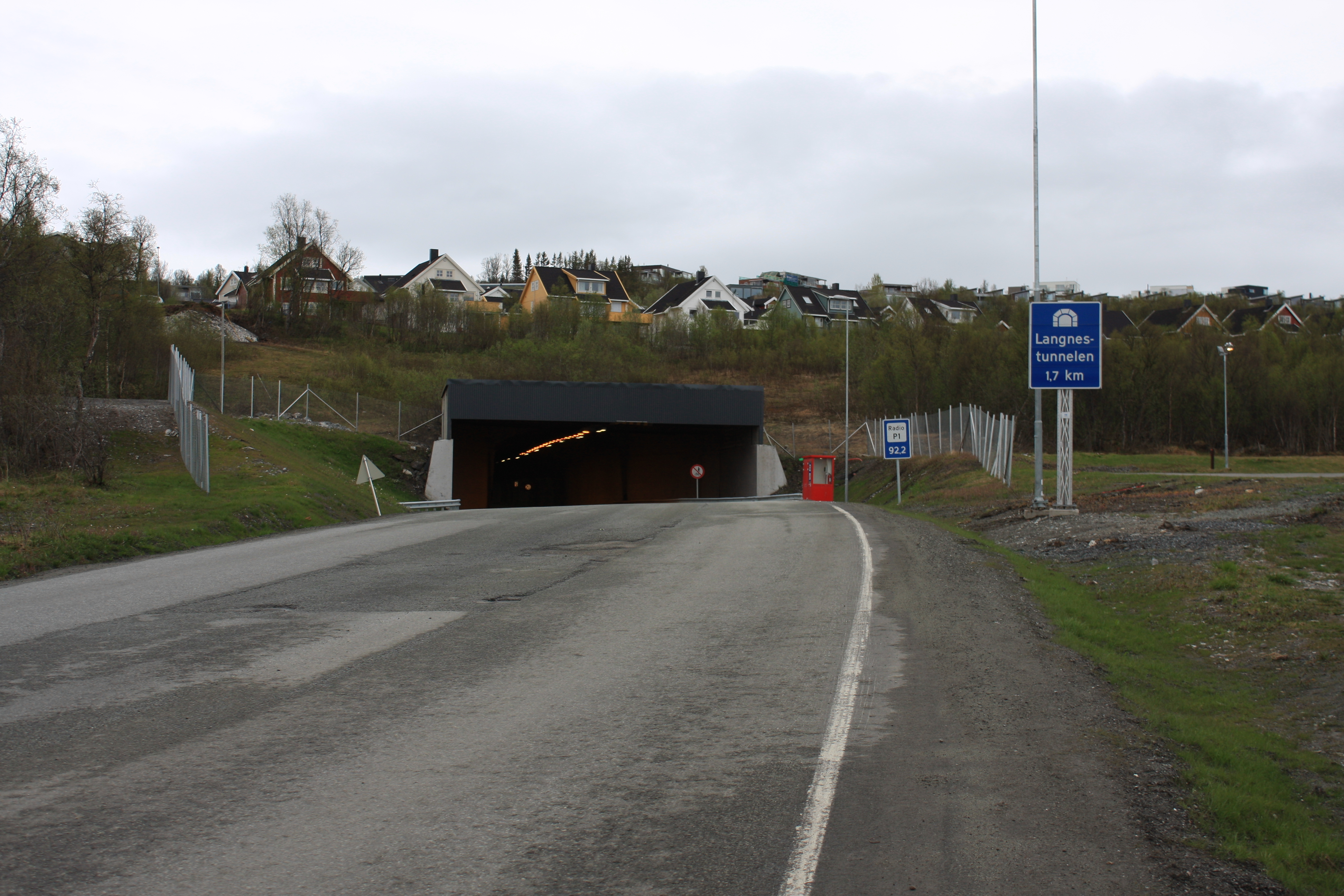 The tunnel entrance to Langnestunnelen in Tromsø, Norway.